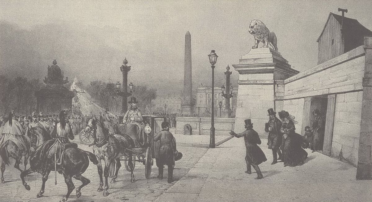 King Louis Philippe flees from Paris after his abdication, Paris 24 February 1848